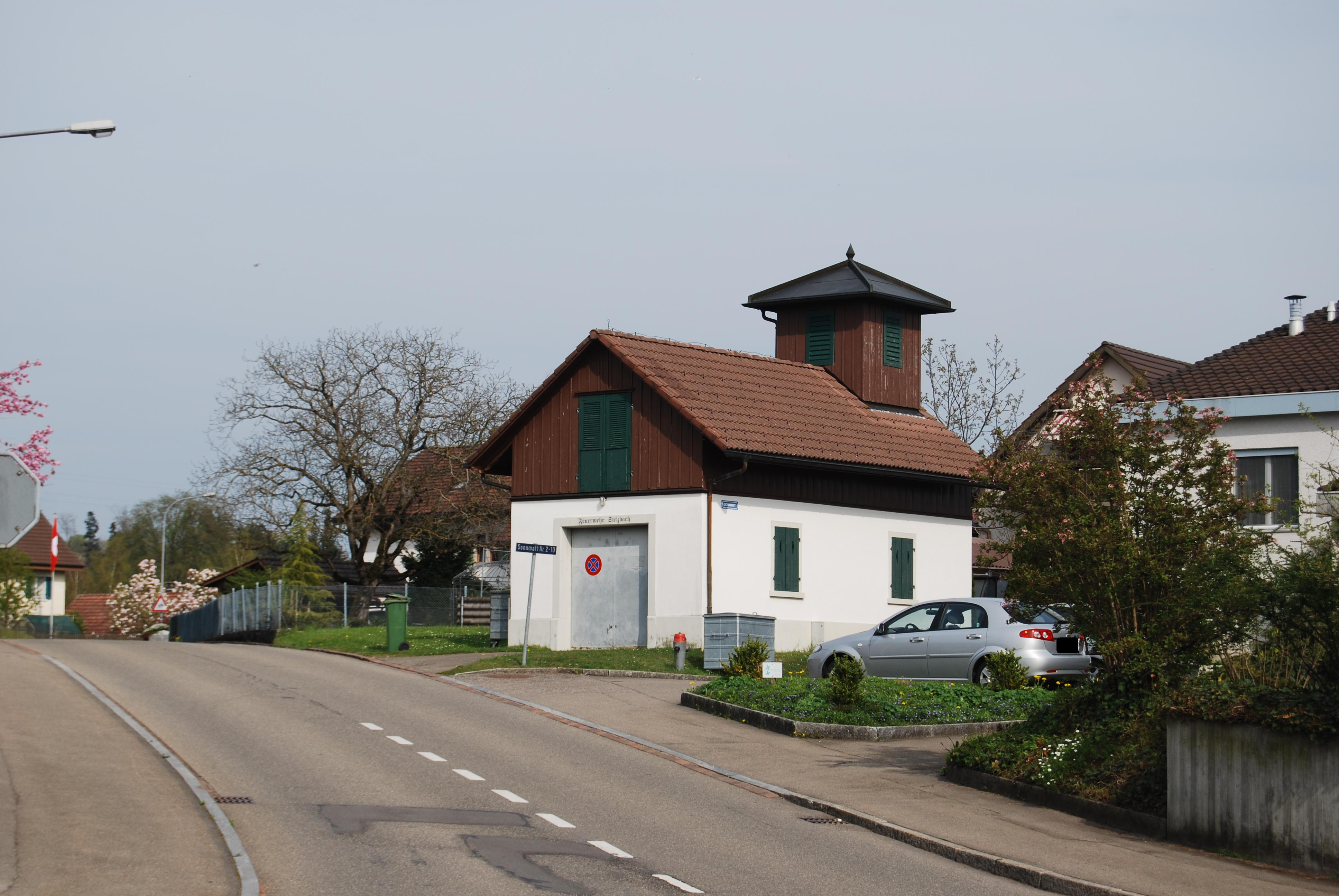 Fire fighters house with tower at Sulzbach, city of Uster, canton of Zürich, Switzerland